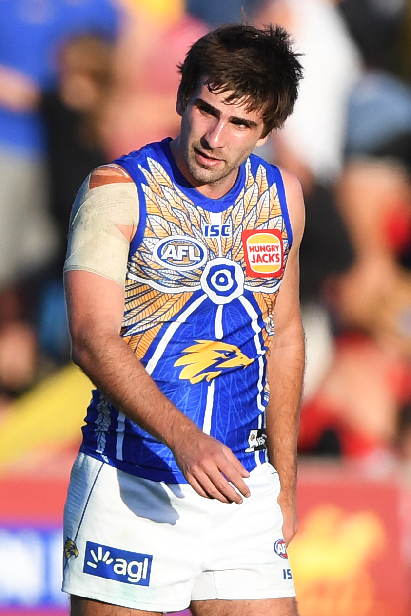 Andrew Gaff of West Coast during the 2019 AFL round 18 match between Melbourne and West Coast at Traeger Park on Sunday, 21 July 2019 in Alice Springs, Northern Territory.